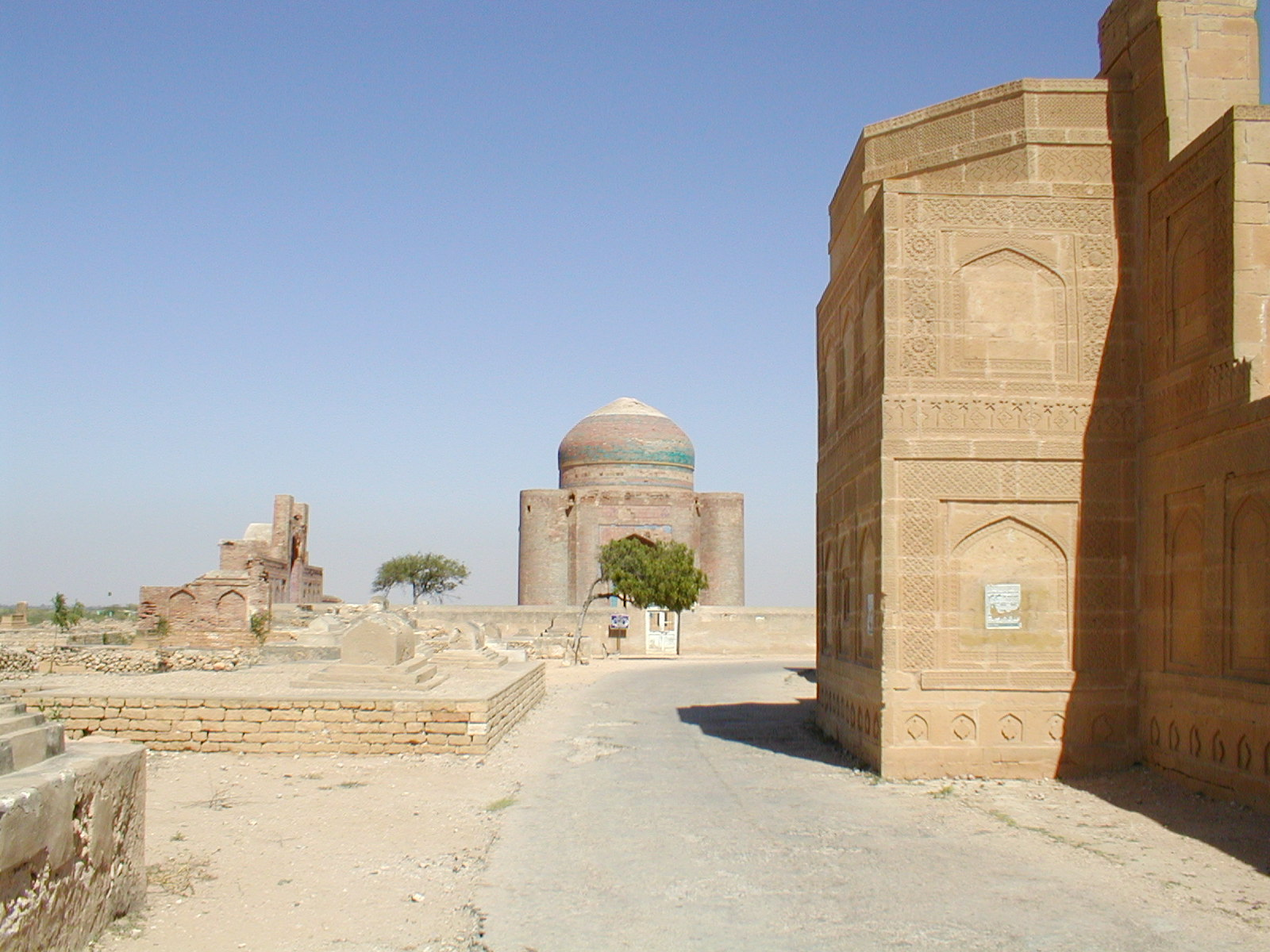 Tombs at the necropolis. Picture is taken in October 2005.